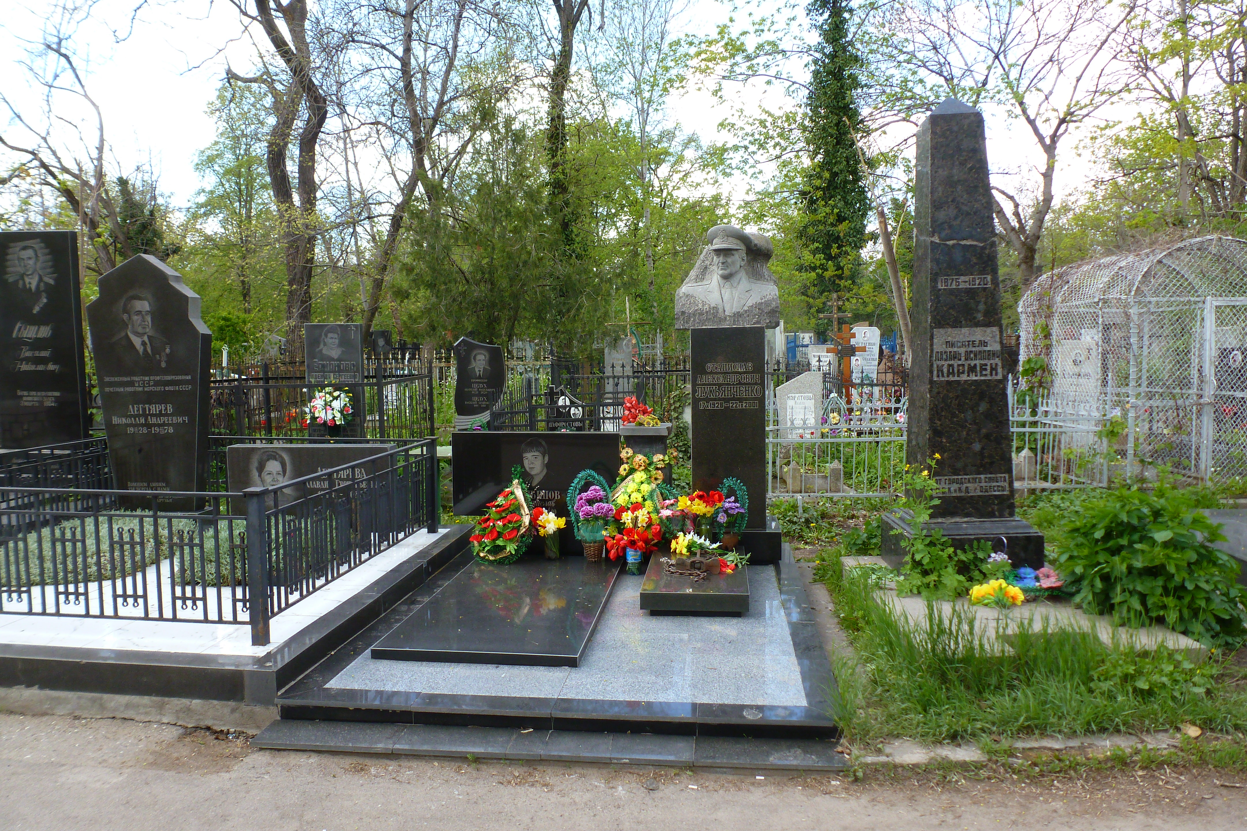 The tombstones of Stanislav Lukiyanchenko (center) and writer Lazar Karmen (right) on the 2nd Christian Cementery in Odessa.